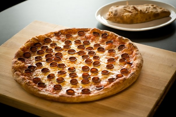 My Tomato Pie's pizza and calzone